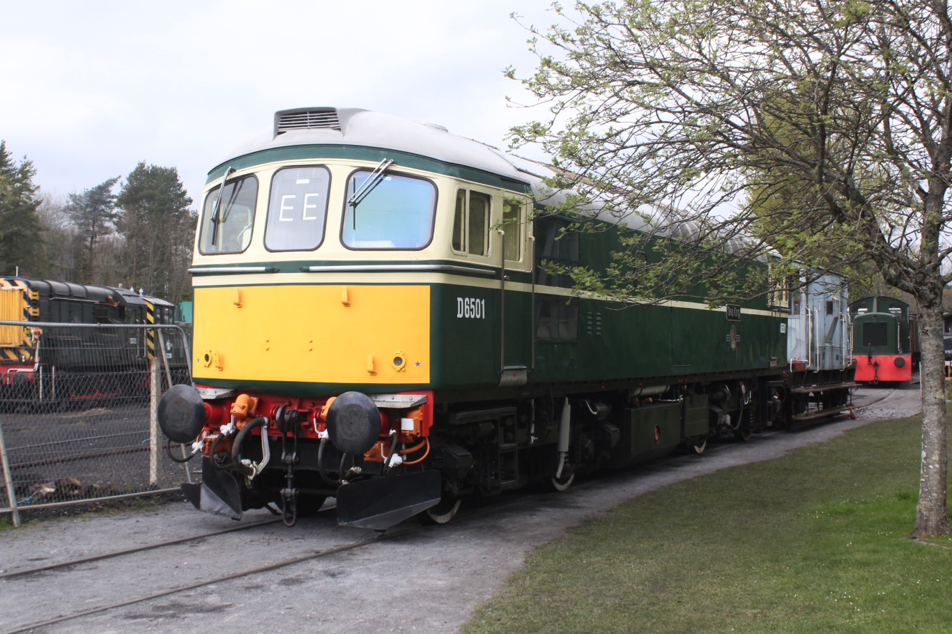 Preserved Class 33 D6501 at Buckfastleigh on the South Devon Railway.